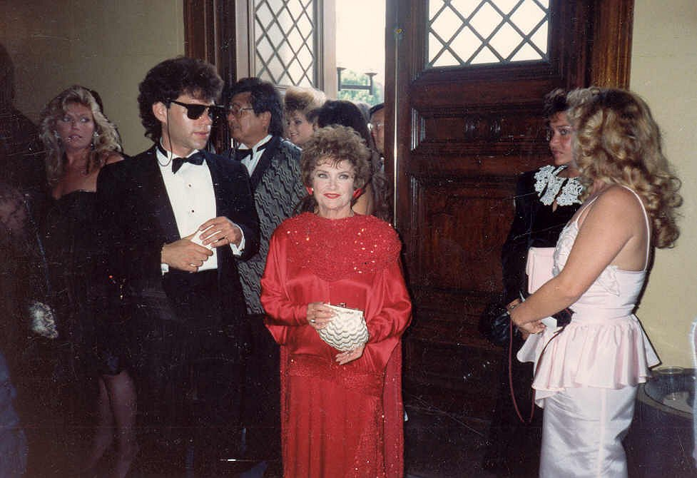 Estelle Getty enters the theater at the 40th Annual Primetime Emmy Awards